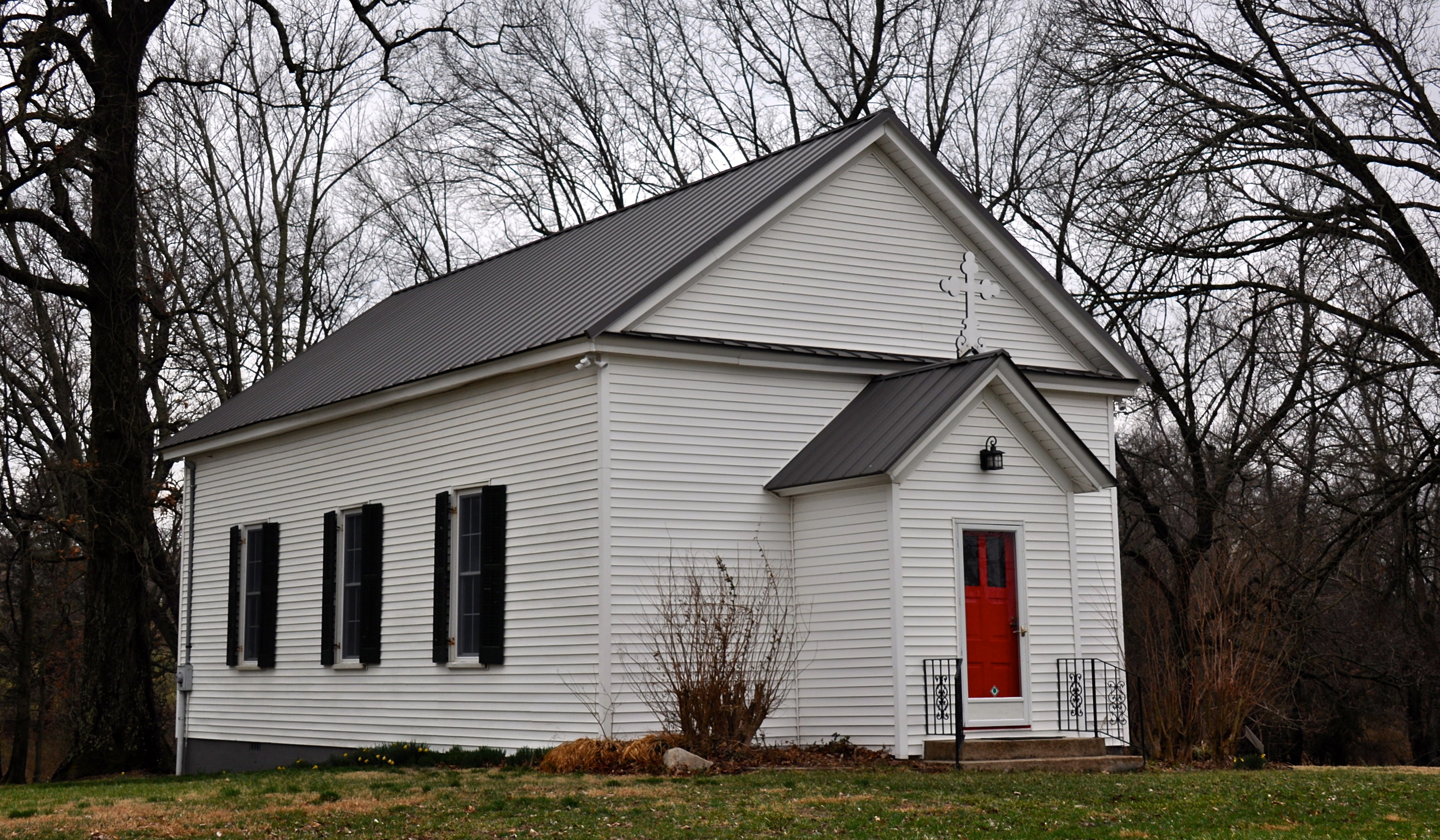 Also known as Grace Chapel, it is located in Rossview, Tennessee. NRHP Reference # 86001395